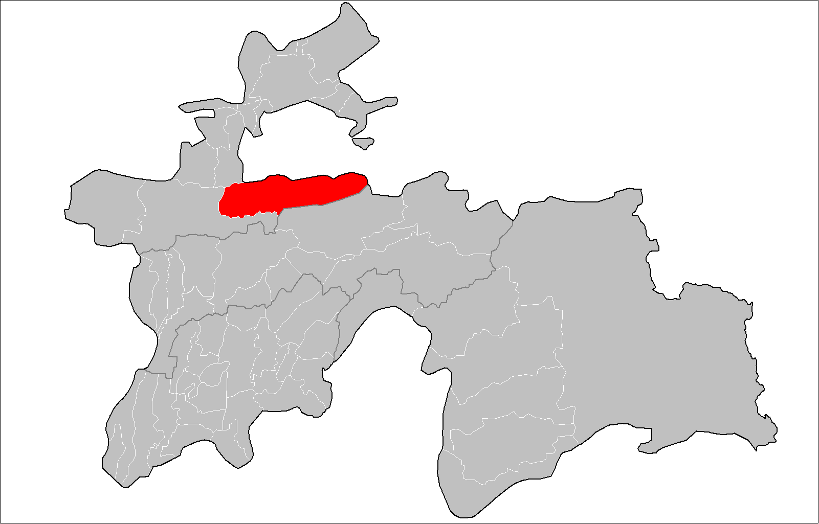 Location of Kuhistoni Mastchoh District in Tajikistan